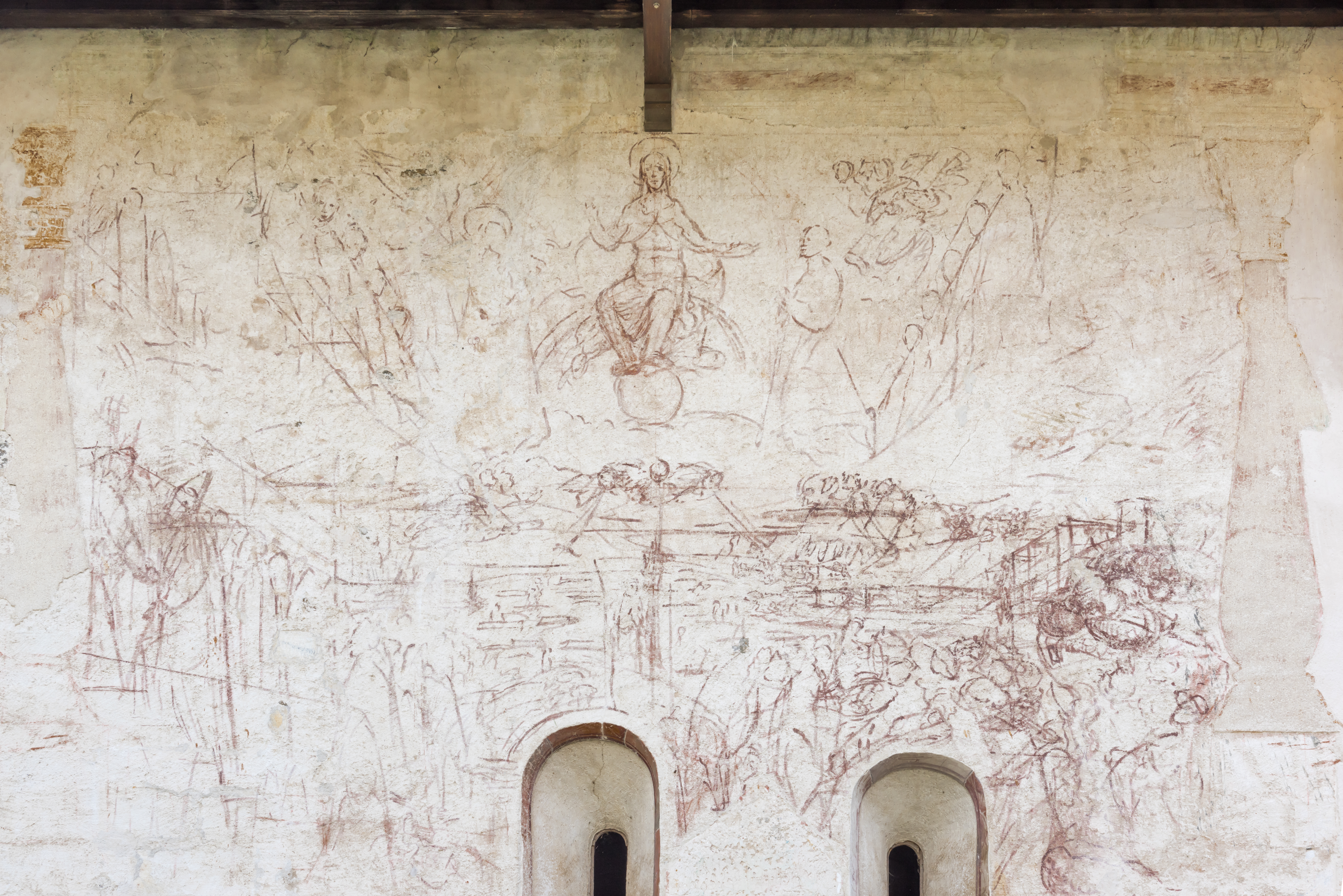 Sinopia of the fresco “Last Judgement“ by Urban Görtschacher at the western wall of the monastery church of the Benedictine Abbey, market town Millstatt, district Spittal an der Drau, Carinthia, Austria, EU